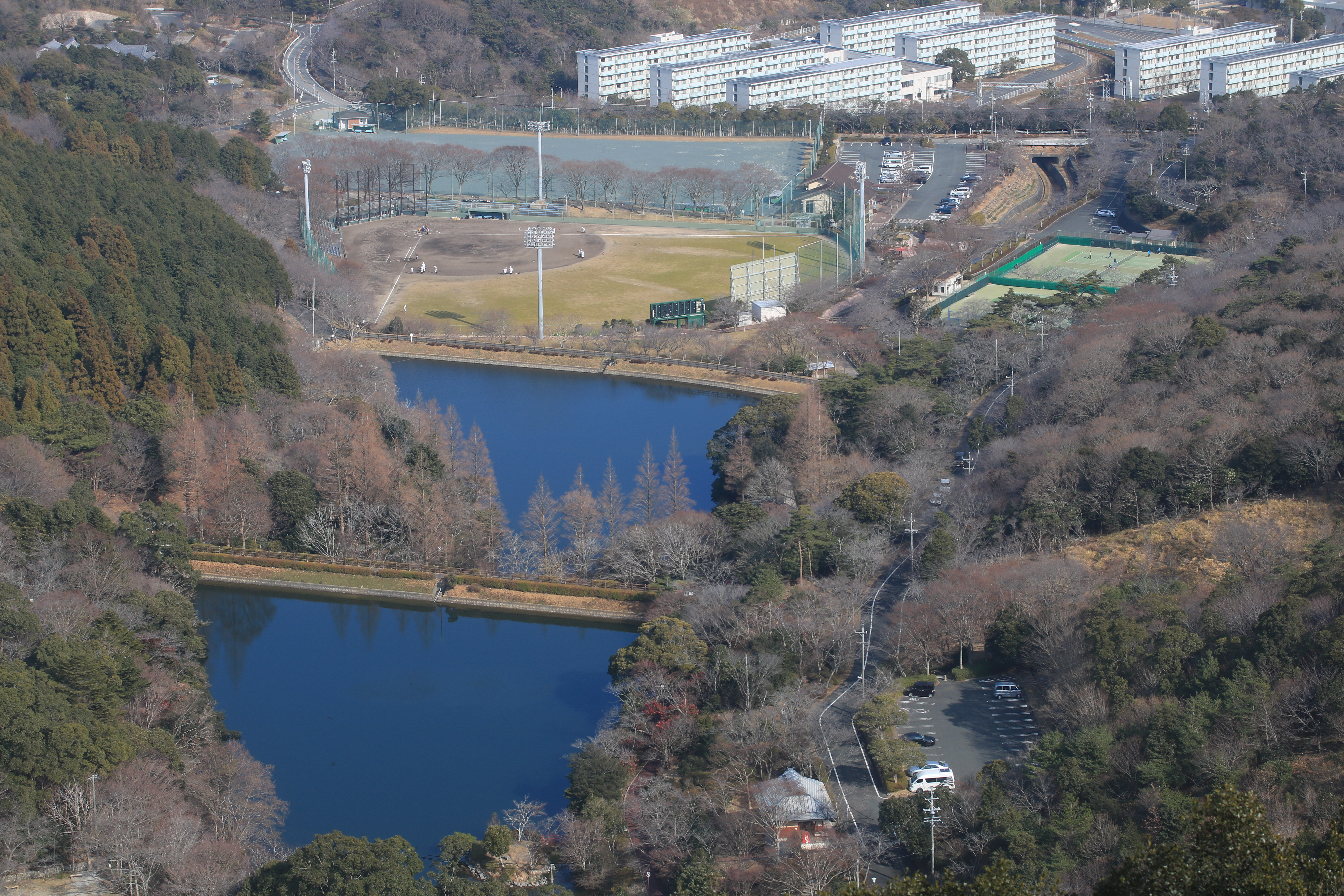 Takigashira Park seen from Mount Takigashira in Tahara, Aichi Prefecture, Japan.